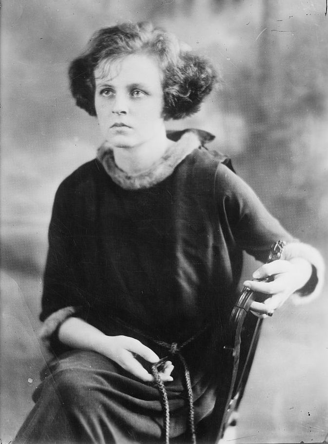 Geraldine Morgan Thompson (1872–1967), an American social reform leader and philanthropist